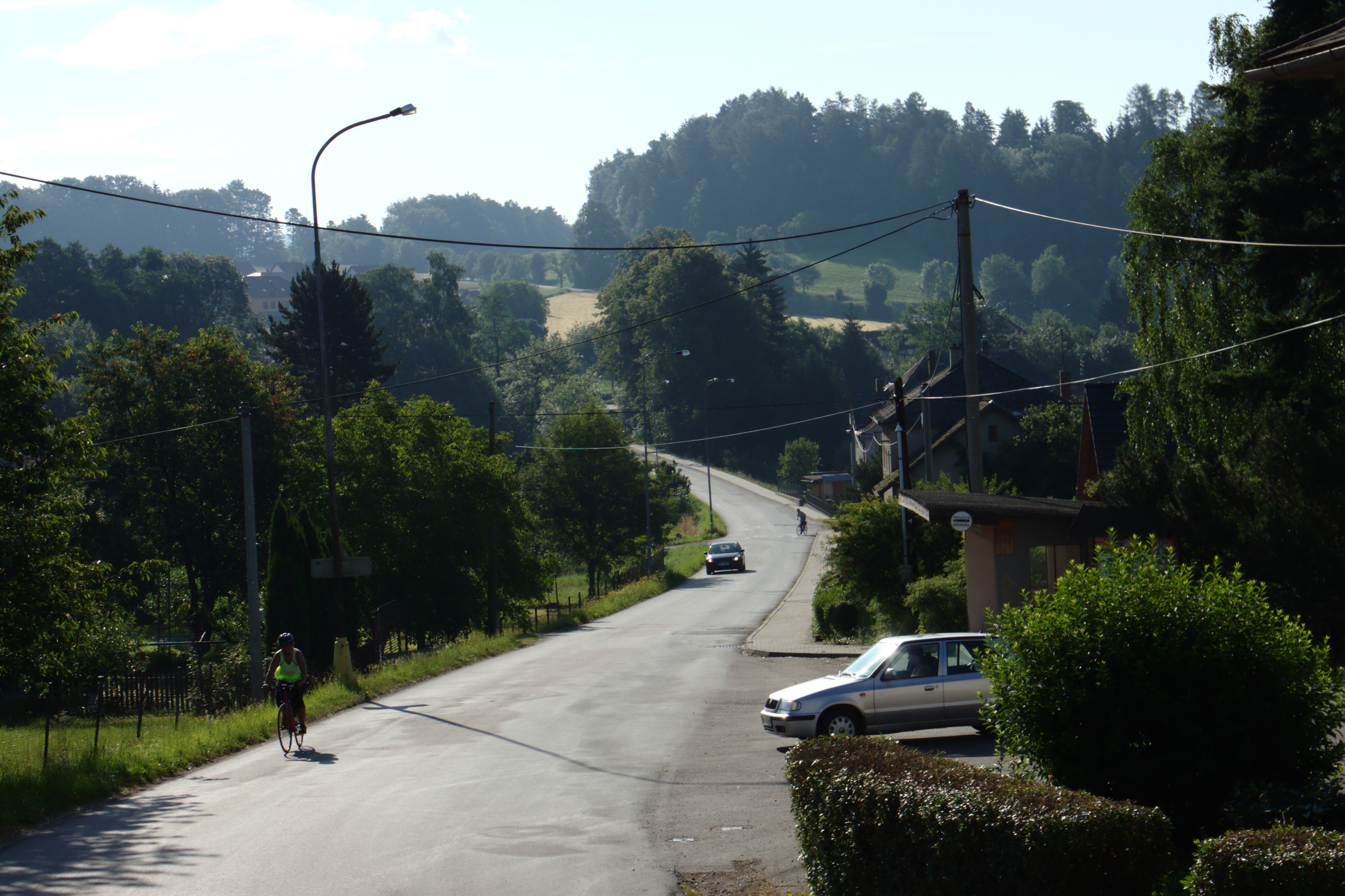 A road passing throught the Verměřovice Village, Pardubice Region, CZ